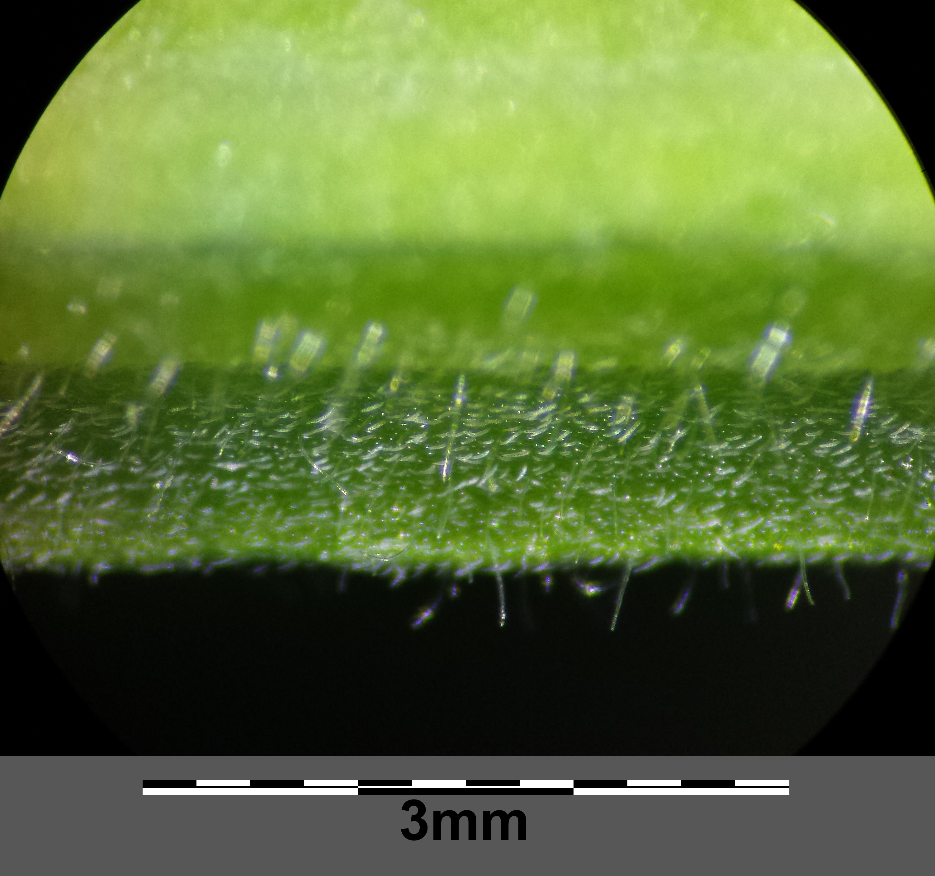 Surface of fruit Taxonym: Oxalis dillenii ss Fischer et al. EfÖLS 2008 ISBN 978-3-85474-187-9 Location: Floridsdorf rail station, Vienna-Floridsdorf - ca. 160 m a.s.l. Habitat: ballast